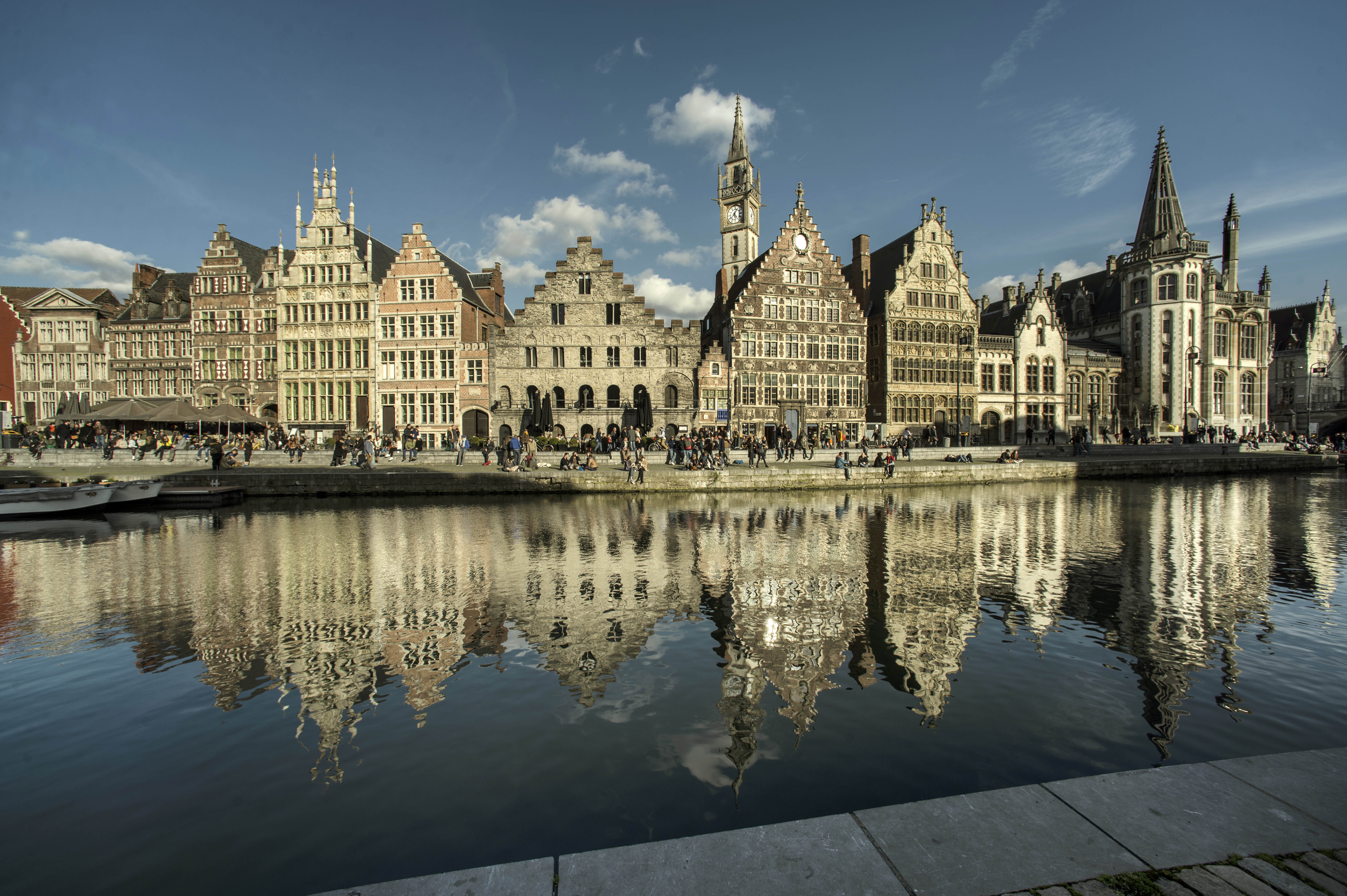 De Gentse Graslei gezien vanop de Koornlei.